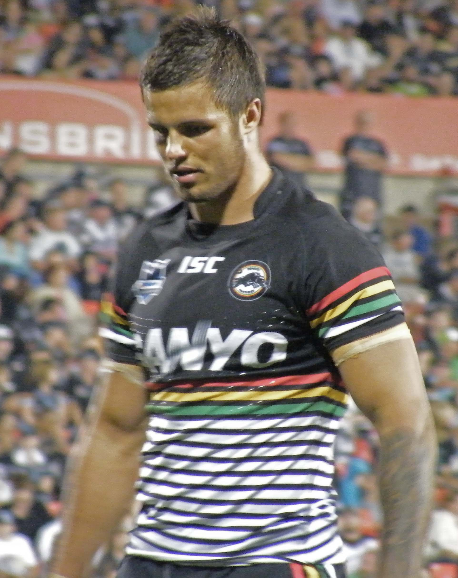 Sandor earl